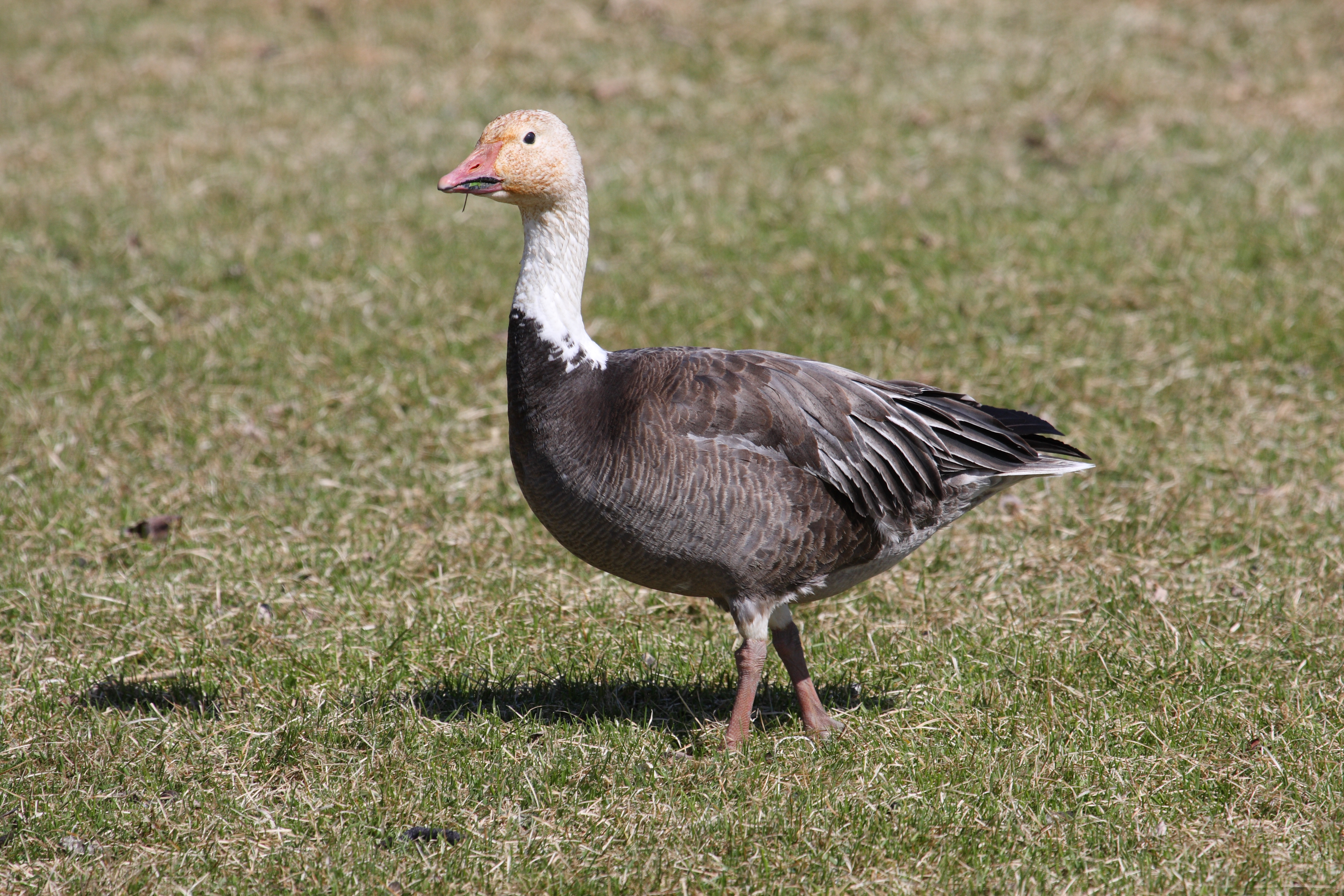 Snow goose (Anser caerulescens), blue phase, Cap Tourmente National Wildlife Area, Quebec, Canada